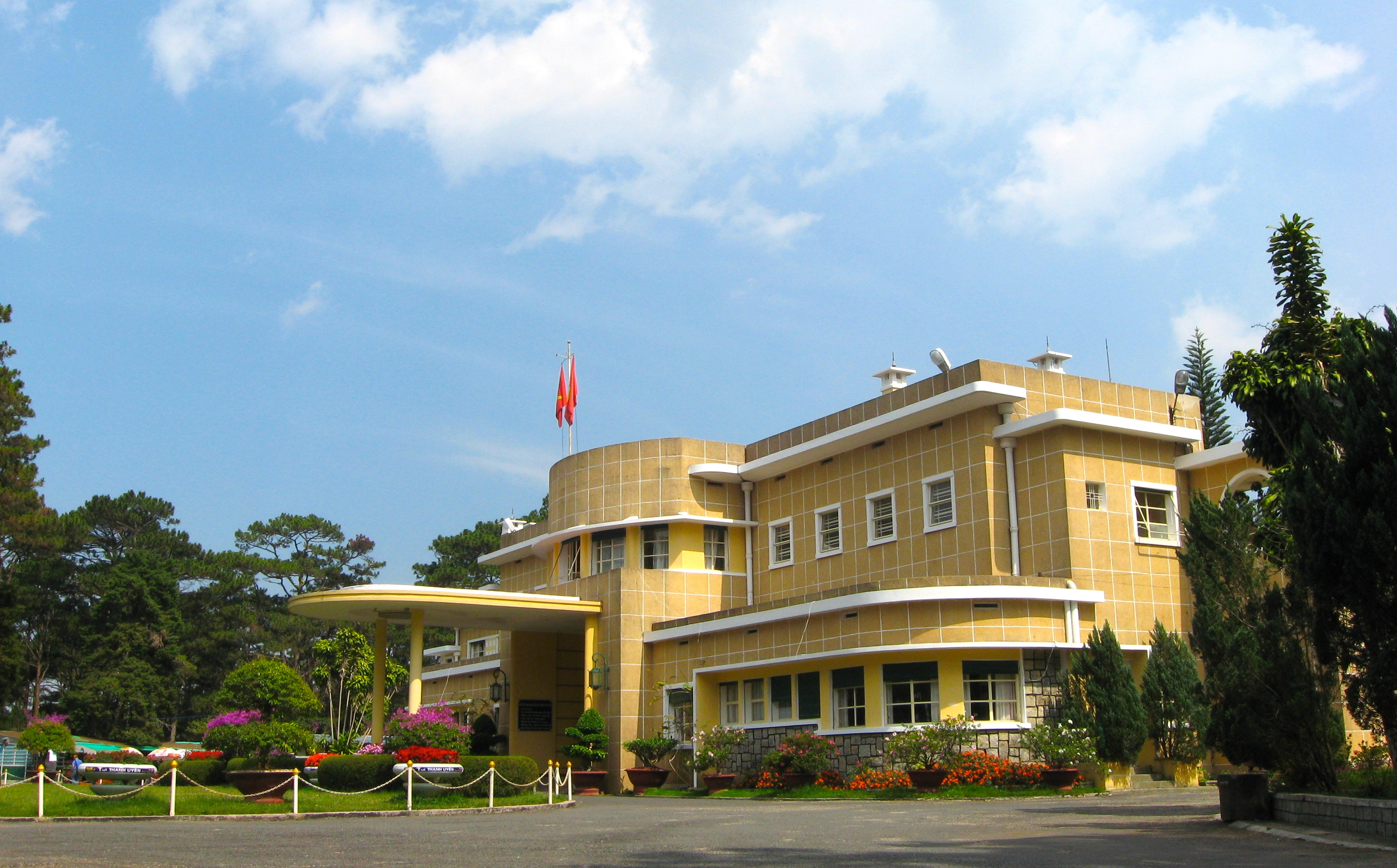 Bao Dai's Summer Palace